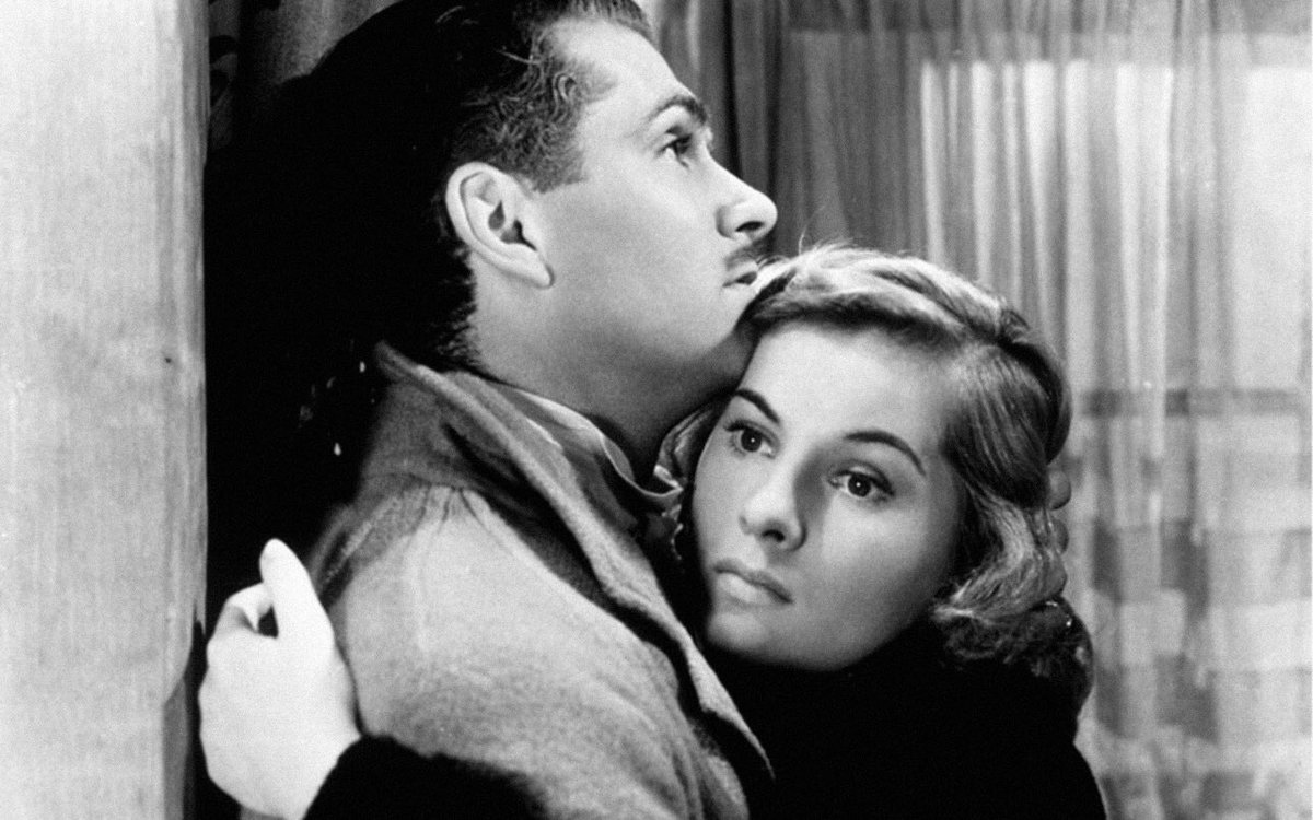 Promotional photograph of Laurence Olivier and Joan Fontaine in the film Rebecca